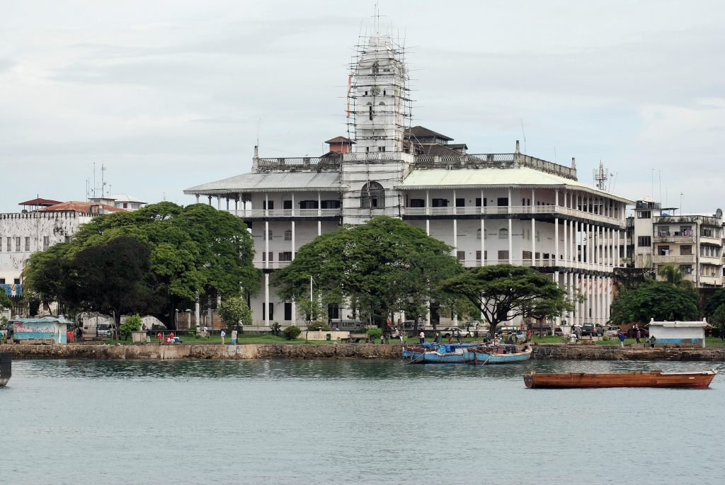 Zanzibar.